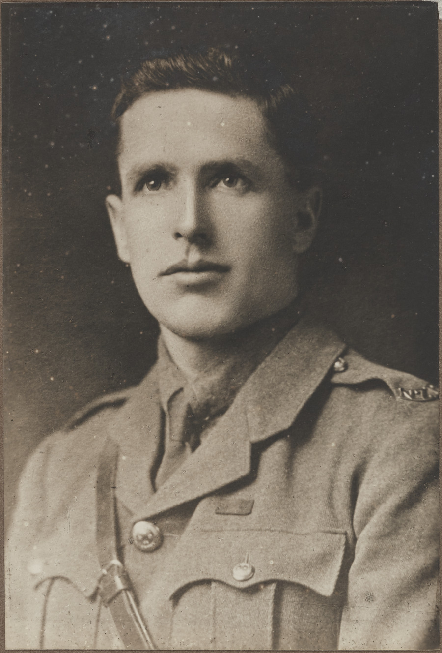 Photograph of Captain George A. Tuck (1920), Great War medal recipient from New Zealand. Archives New Zealand Reference: AALZ 25044 1 / F809 31 Part of a series of photographs obtained by the New Zealand National Museum provided by families of New Zealanders who had received a medal during the Great War.